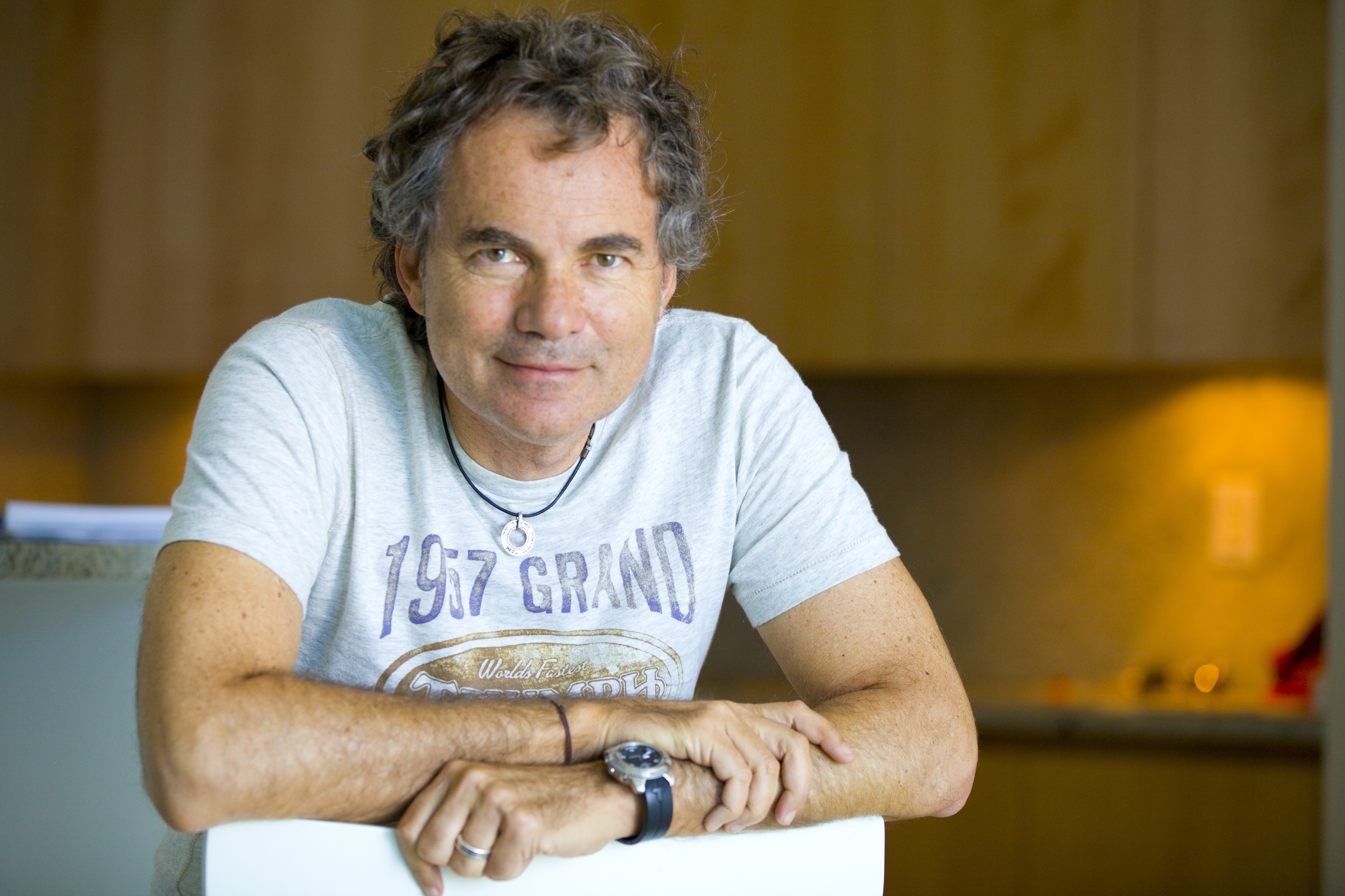 Martin Varsavsky